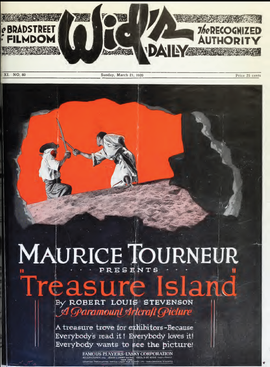 Ad for Treasure Island (1920), a film directed by Maurice Tourneur